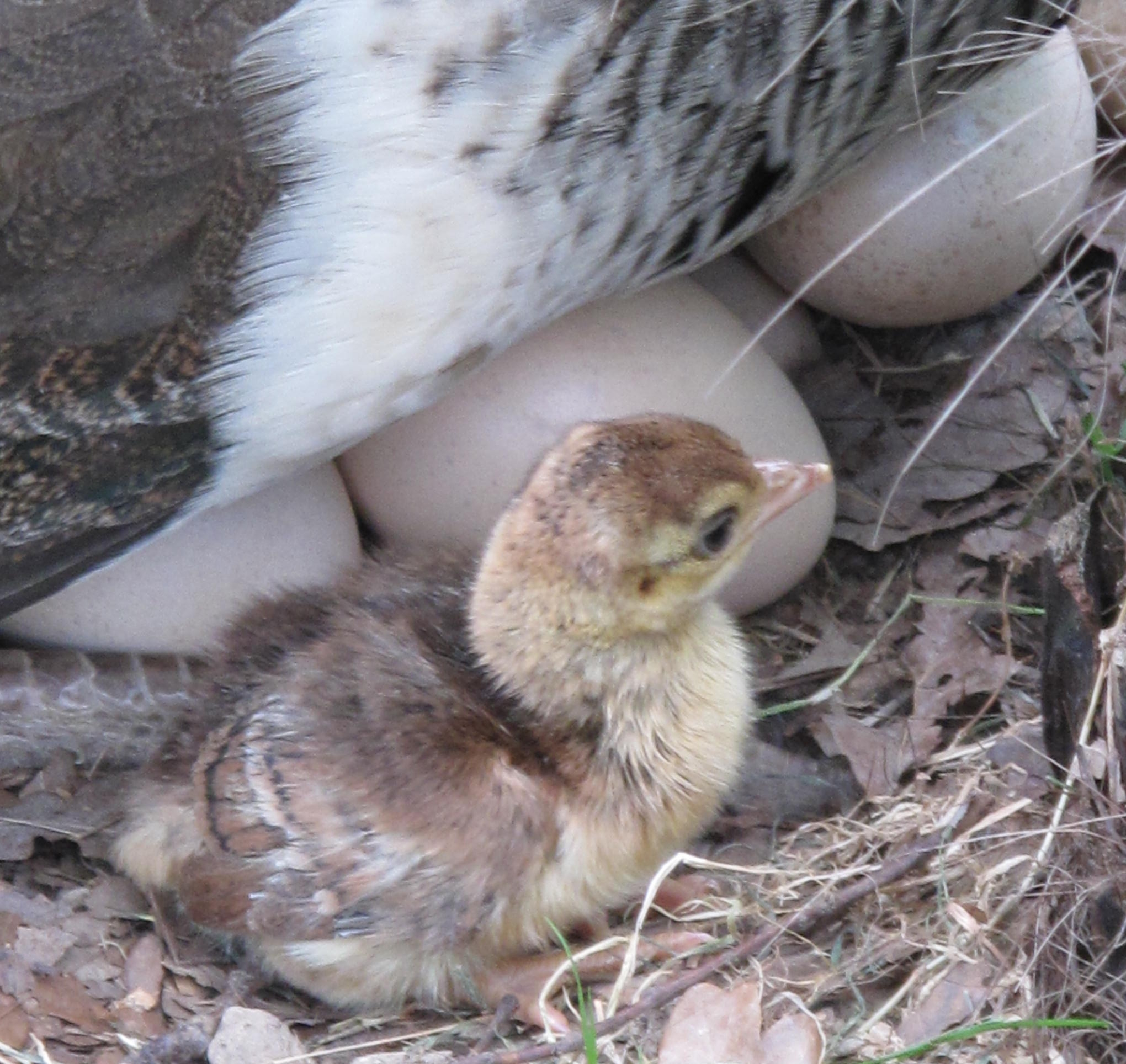 Eggs and chicken of peacock at the zoo of the bois d'Attilly (Seine-et-Marne, France).